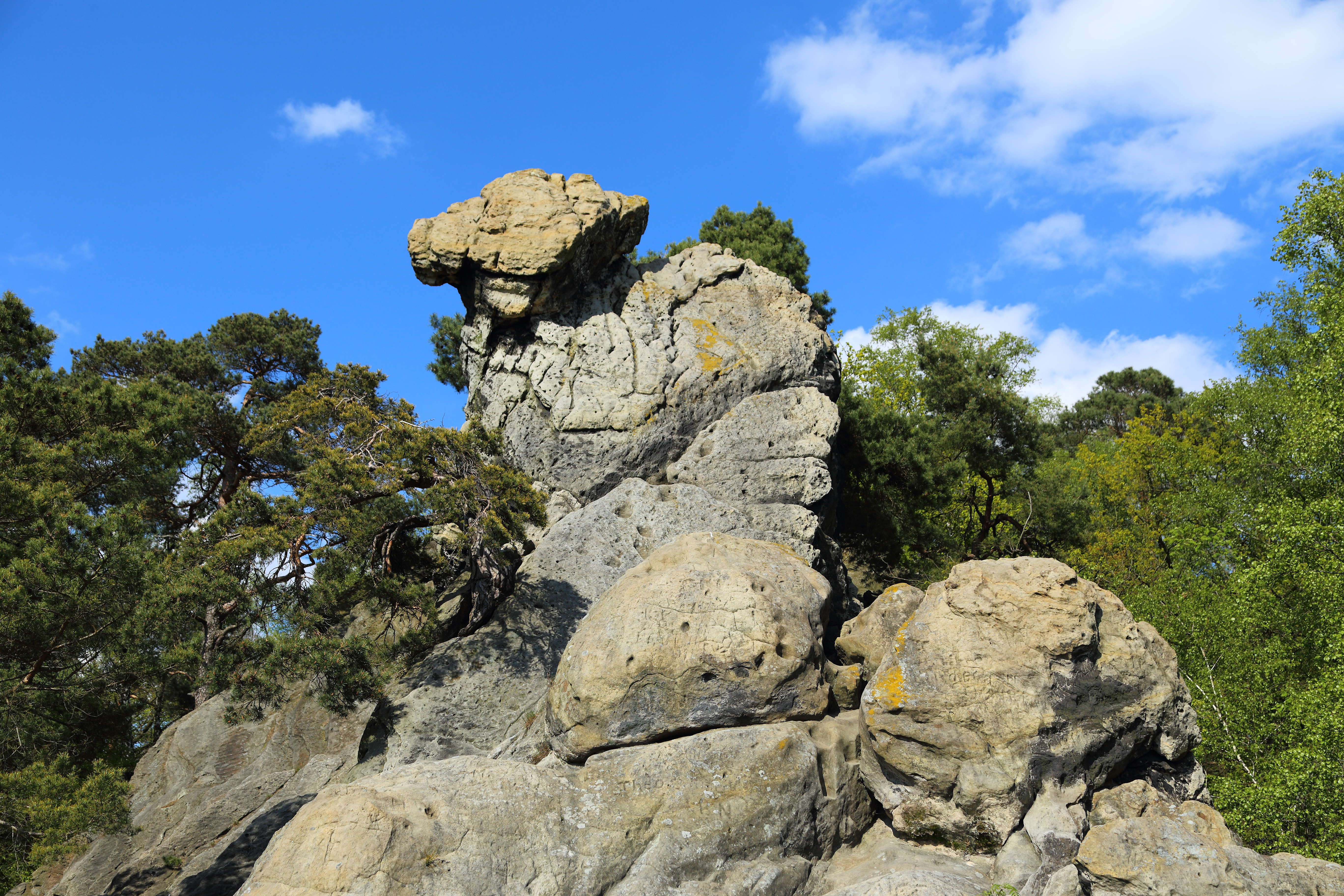 The famous sandstone rock formation Crouching Wife (Hockendes Weib) at the nature reserve „Dorenthe Cliffs“ (Naturschutzgebiet Dörenther Klippen) near Ibbenbüren-Dörenthe, Kreis Steinfurt, North Rhine-Westphalia, Germany.